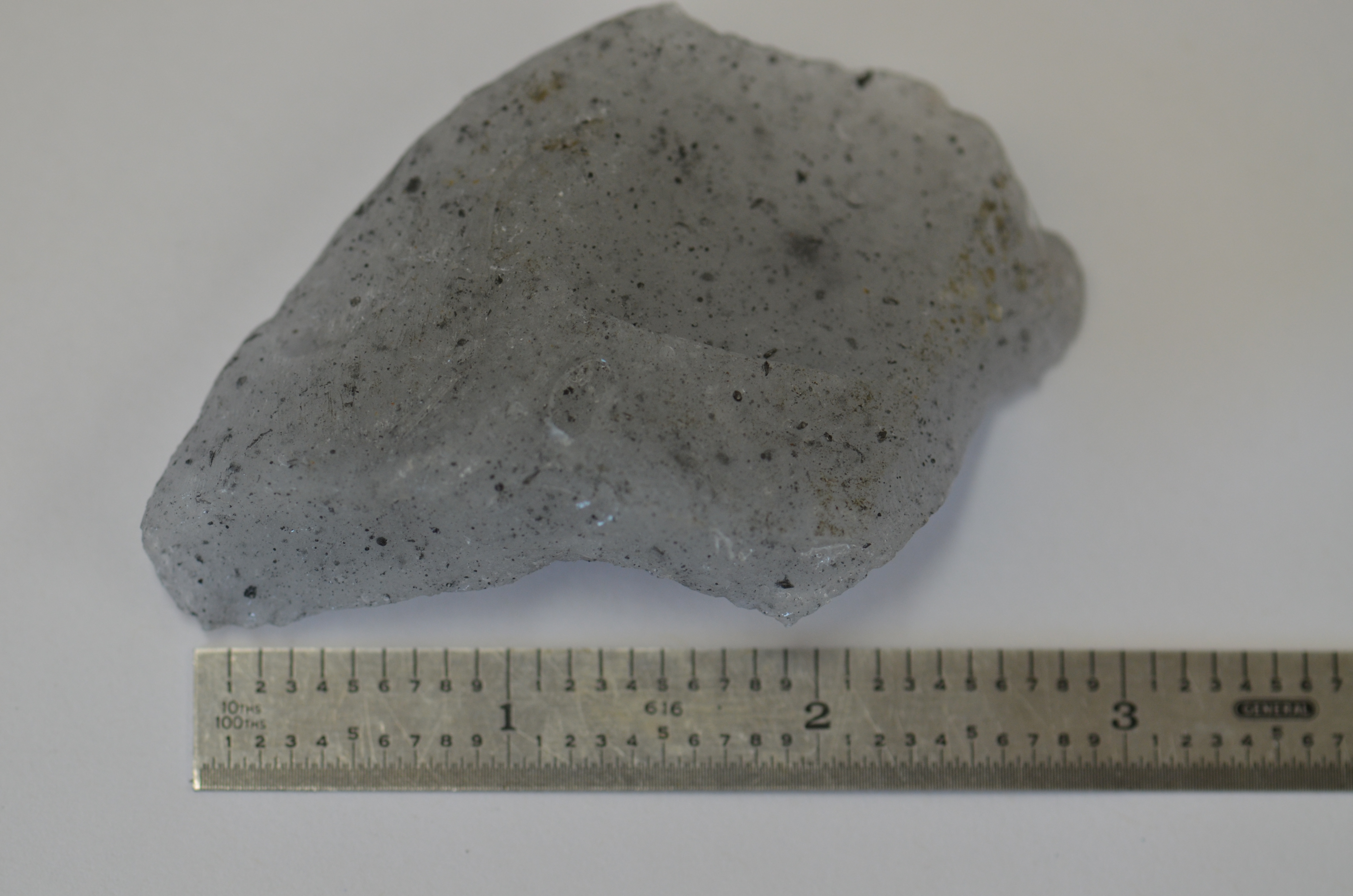 A nugget of beryllium fluoride obtained from Materion. Black spots are carbon.